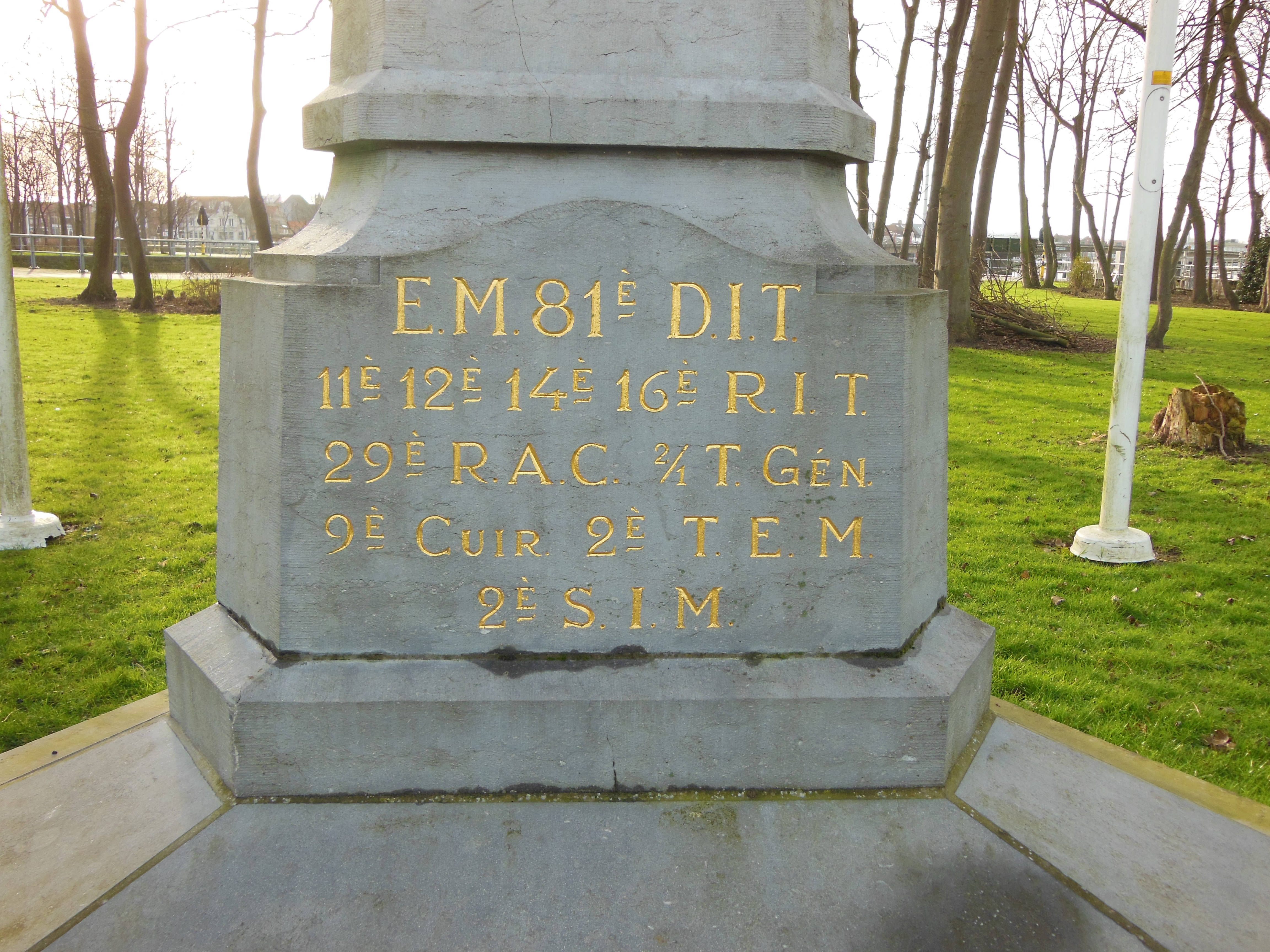 The units composing the French Division on the socle of the Memorial